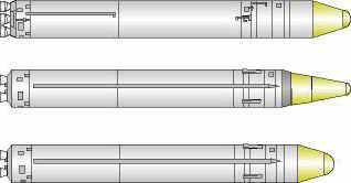 USA Code Name SS-19 Nato Code Name: Stilleto Russian Designation: RS-18 (missile) Range: 10000 Km Stages: 2 Fuel: Liquid Inservice:In Service Notes: Replacement for SS-11 and SS-13, Competitive desigh with SS-17 Space Launcher Derivative: Rockot